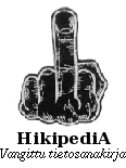 The logo of the Uncyclopedia in Finland